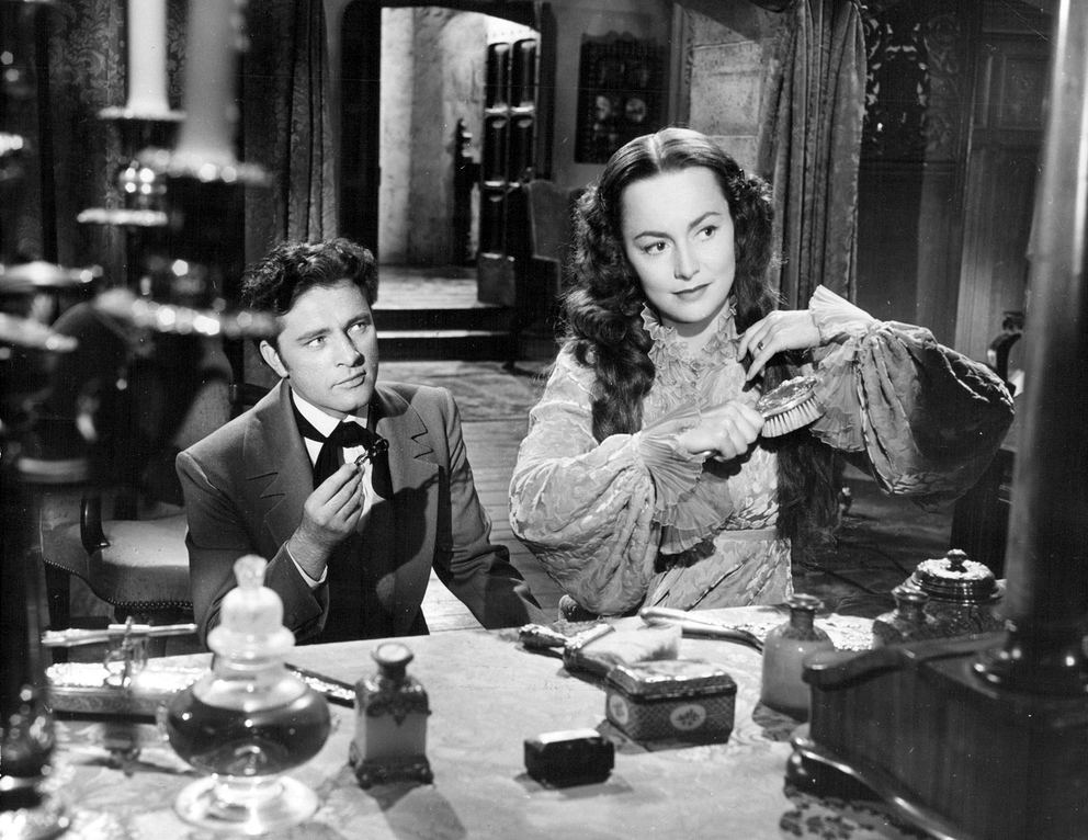 Olivia de Havilland and Richard Burton publicity photo in My Cousin Rachel, 1952